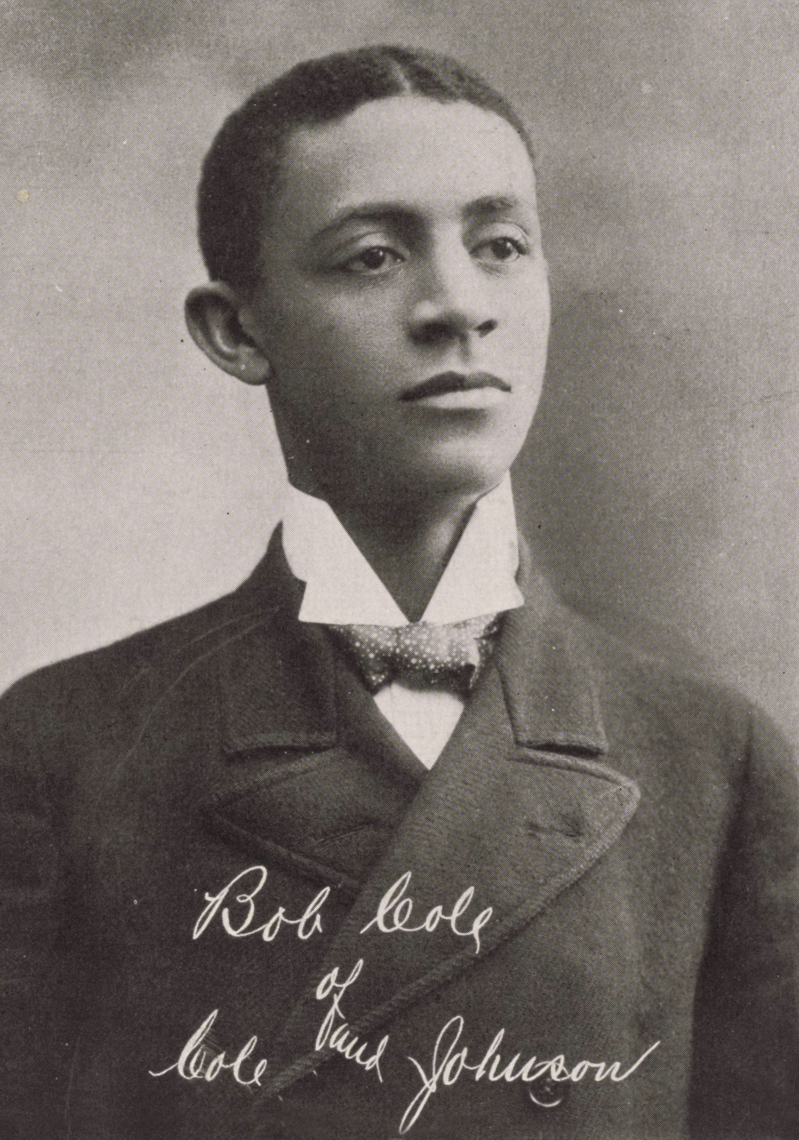 Portrait of composer and producer Bob Cole.